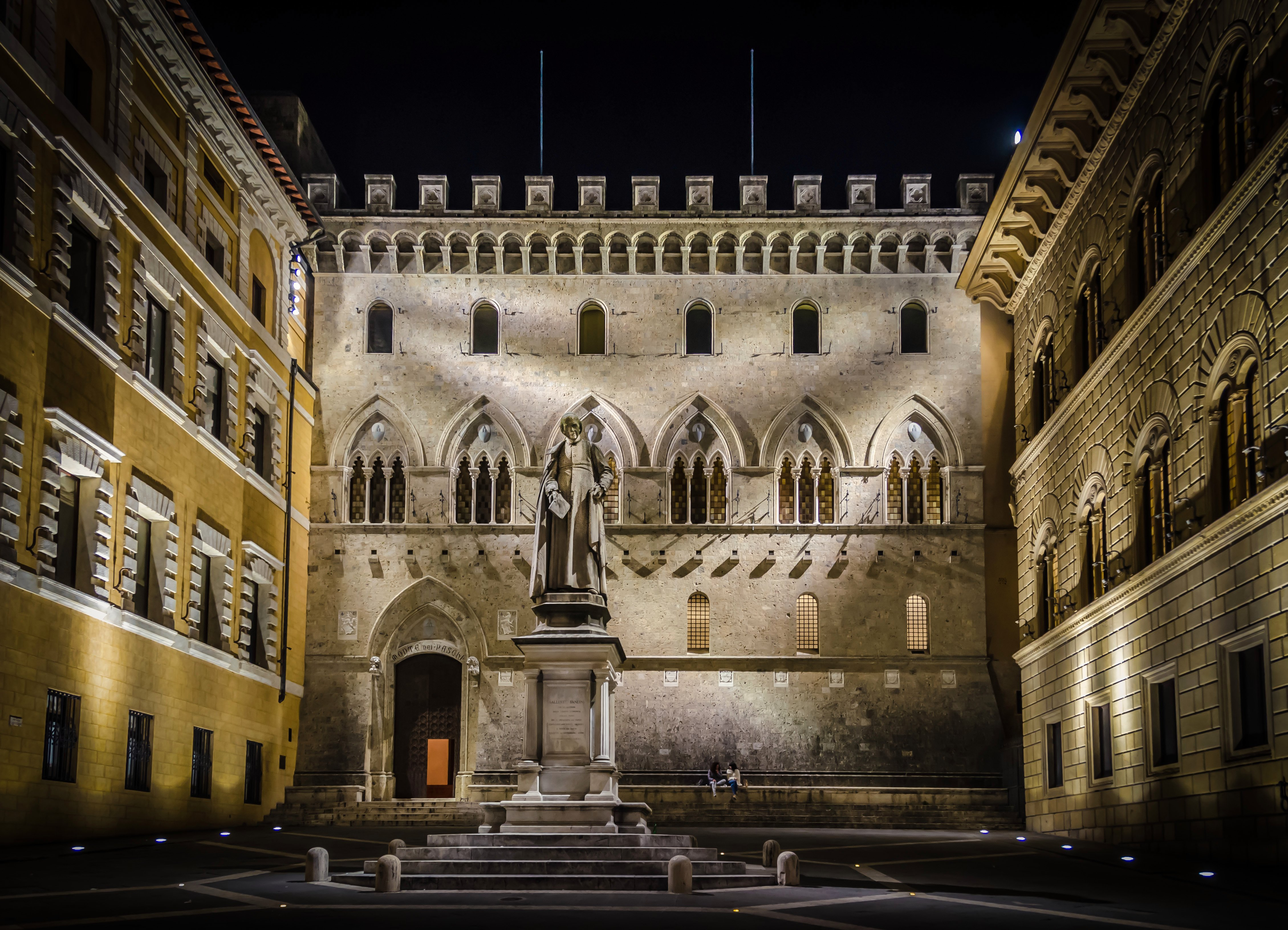 Banca Monte dei Paschi di Siena S.p.A., the oldest surviving bank in the world and Italy's third largest bank. Founded in 1472.